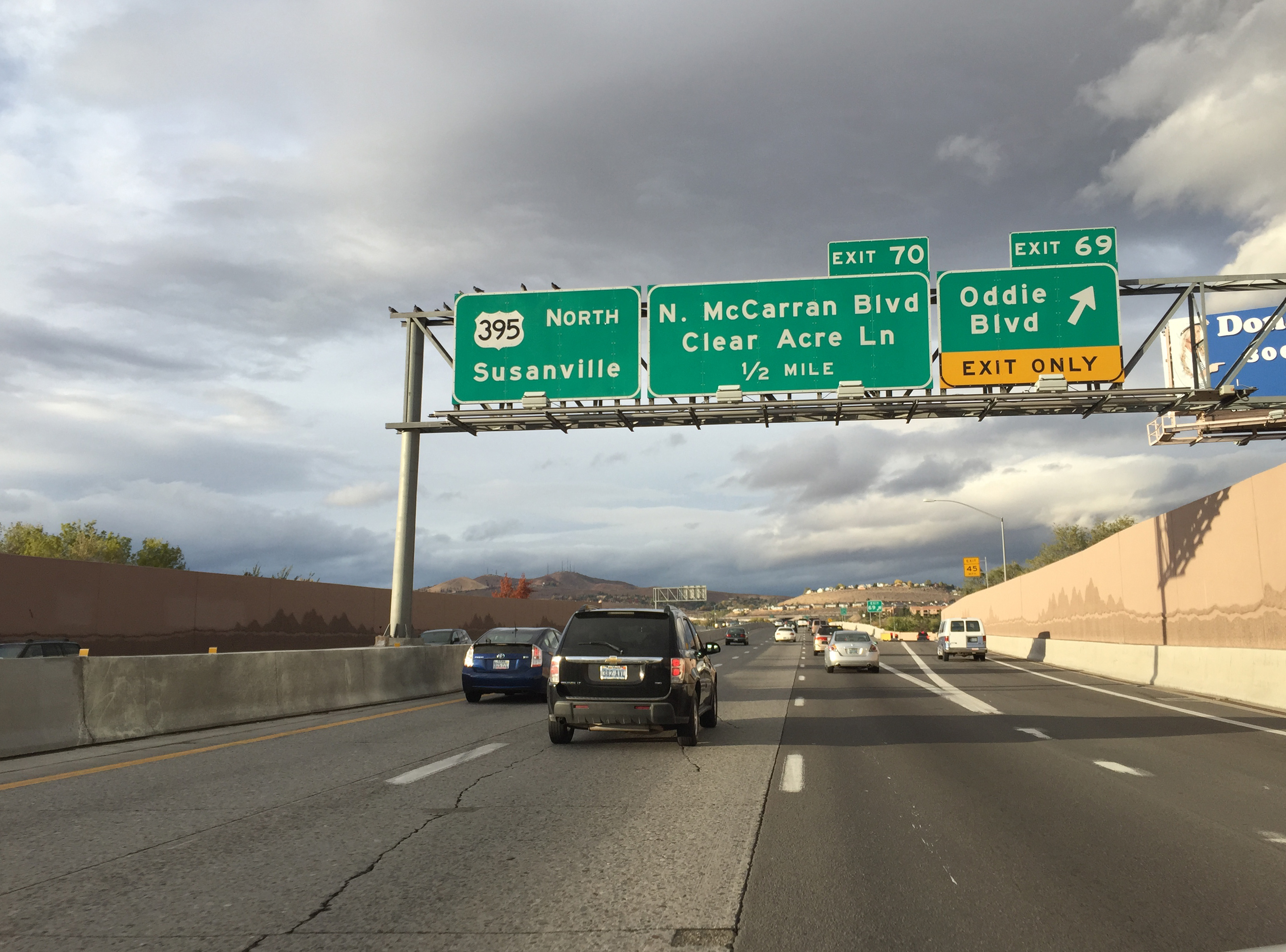 View north along U.S. Route 395 at Exit 69 (Oddie Boulevard) in Reno, Nevada